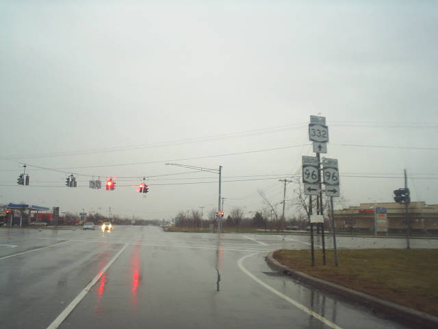 Southbound on New York State Route 332 at New York State Route 96 in Farmington.